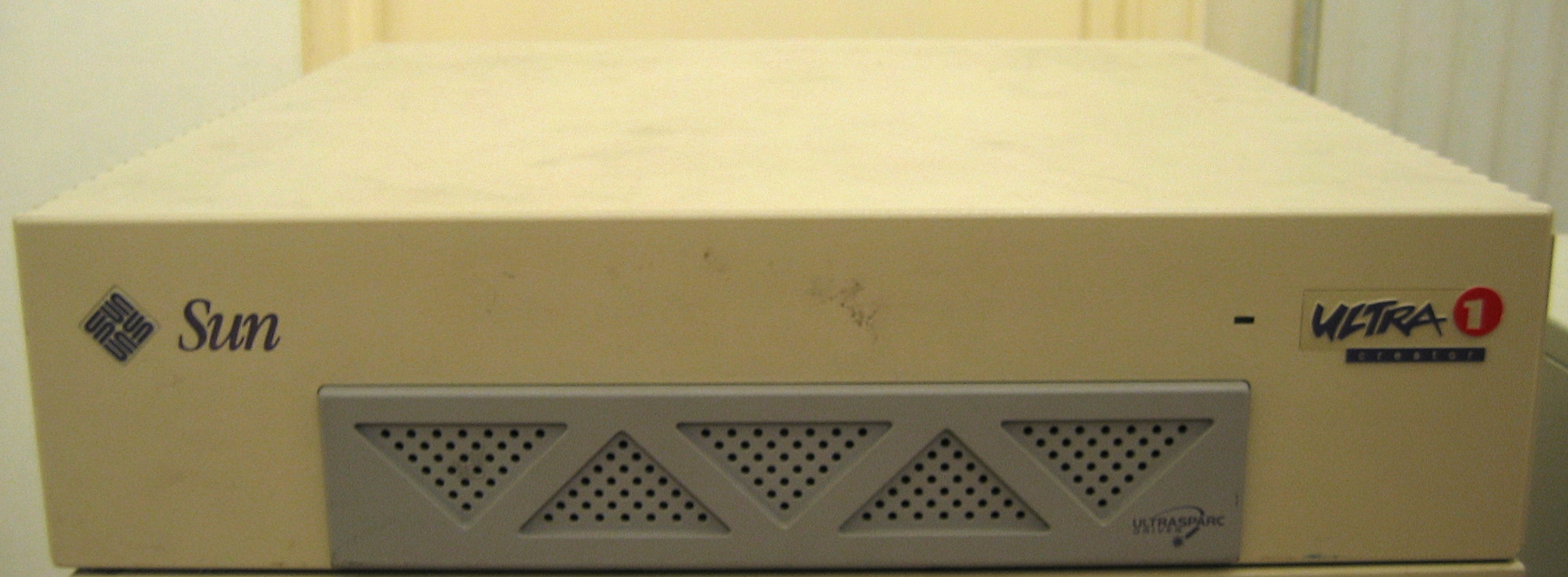 Sun Ultra 1 Unix workstation